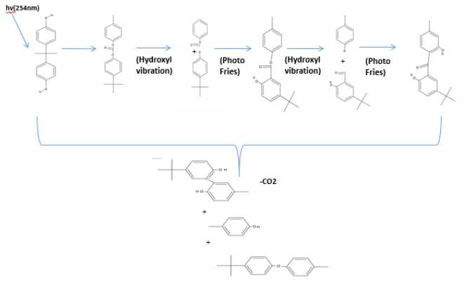 Summary of the Photo-Fries Degradation reaction.